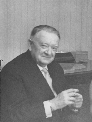 Walter Ohle 1970